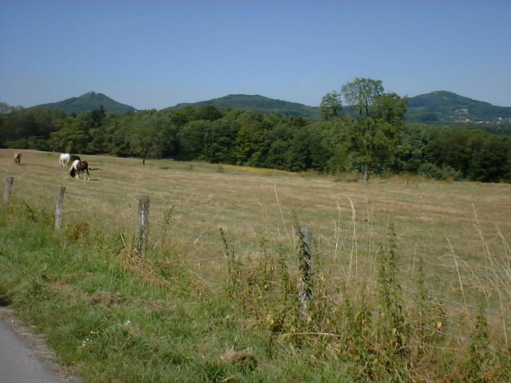 View of the Siebengebirge hill region from Aegidienberg, the mountains Löwenburg (left), Lohrberg (mid) and Großer Ölberg can be seen.